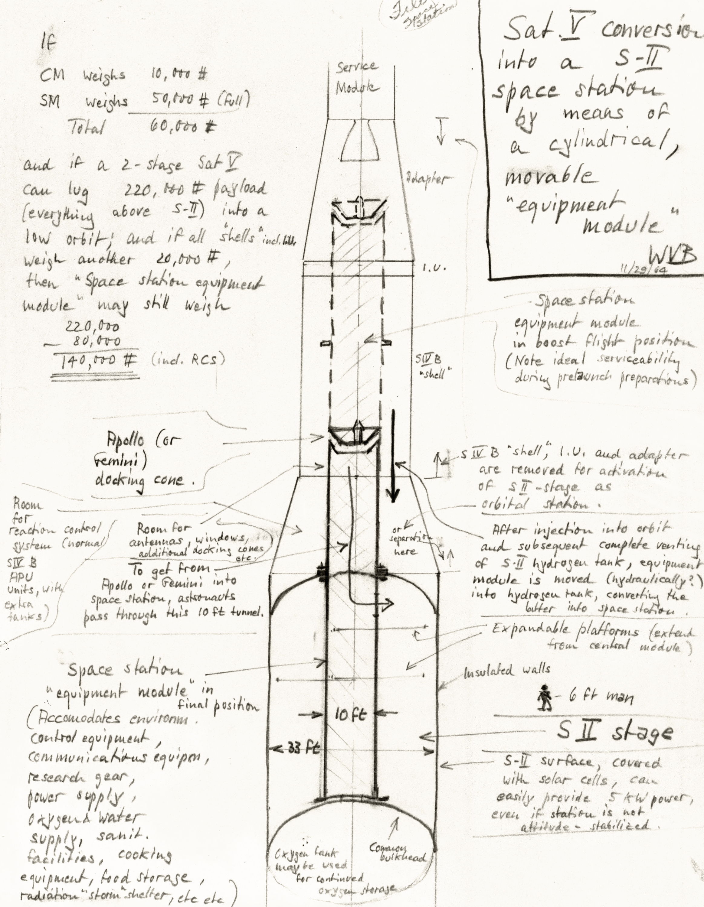 In a sketch prepared in November 1964, Dr. von Braun envisioned developing a Saturn V S-II Stage into a space station.